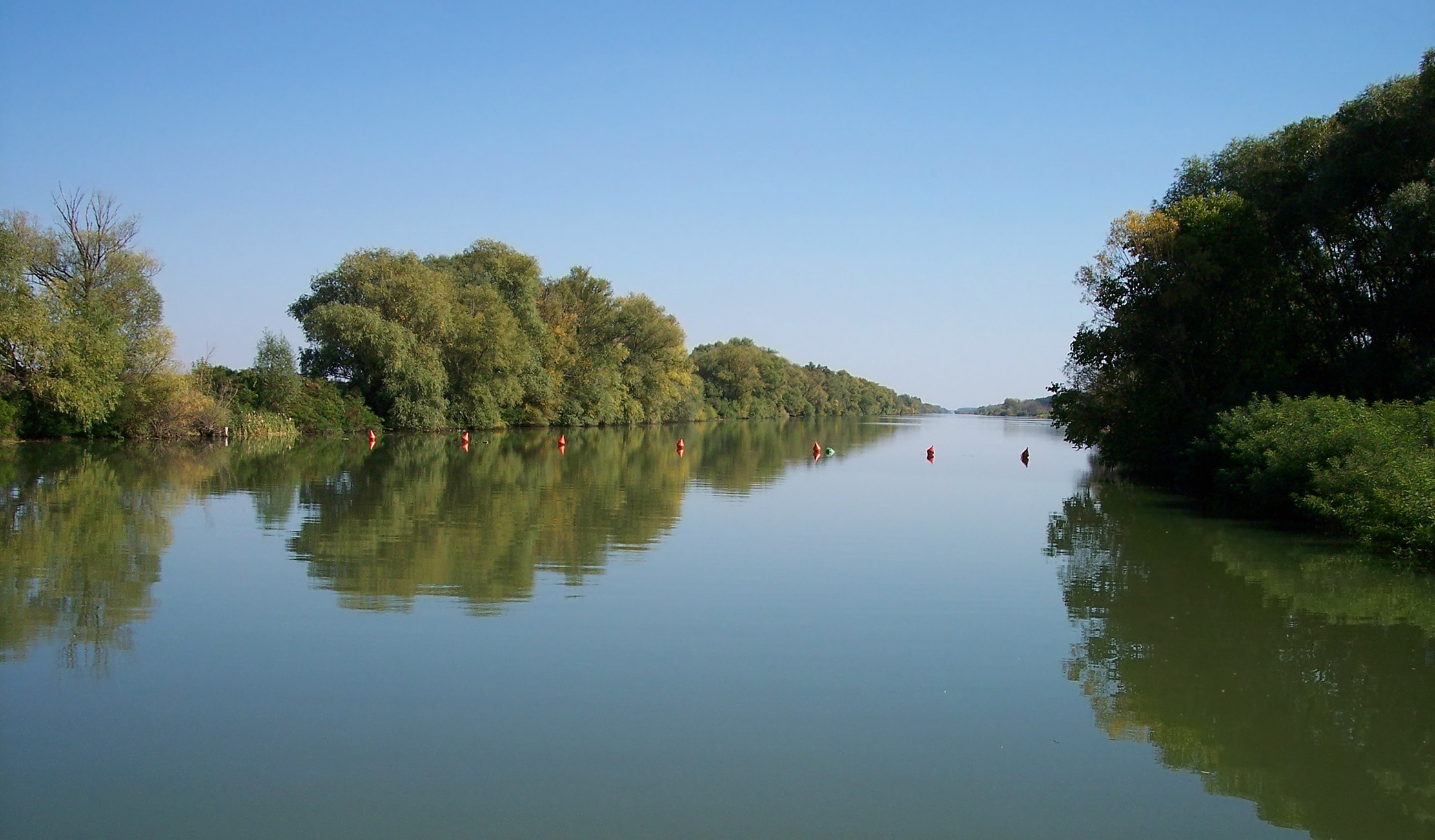 Kettős-Körös river at Békés, shot from the floodgate (Hungary)